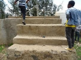 Mashih school hand pump